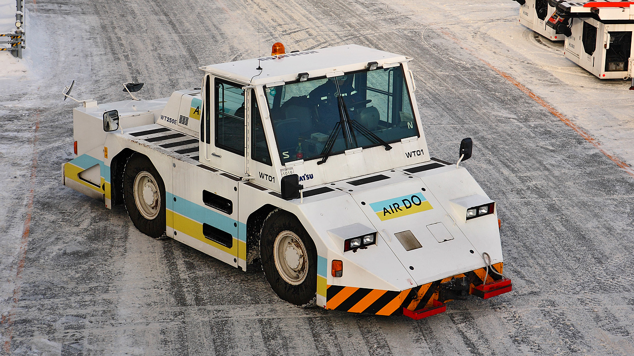 Komatsu towing tractor type WT250E with GPU of AIR DO in New Chitose Airport